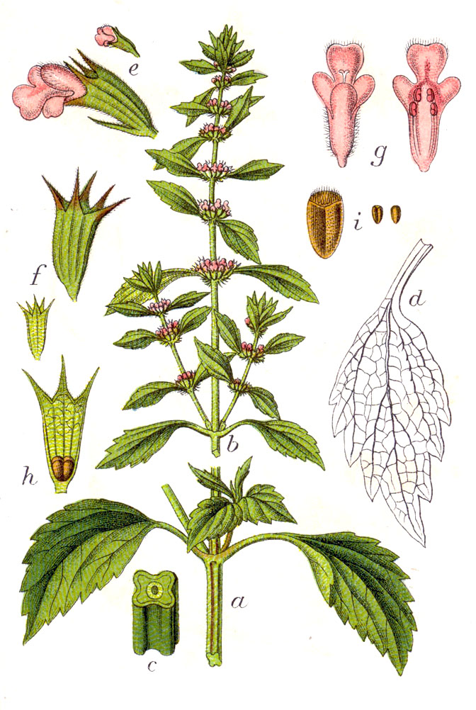 Leonurus marrubiastrum L. Original Caption Falscher Andorn, Leonurus marrubiastrum